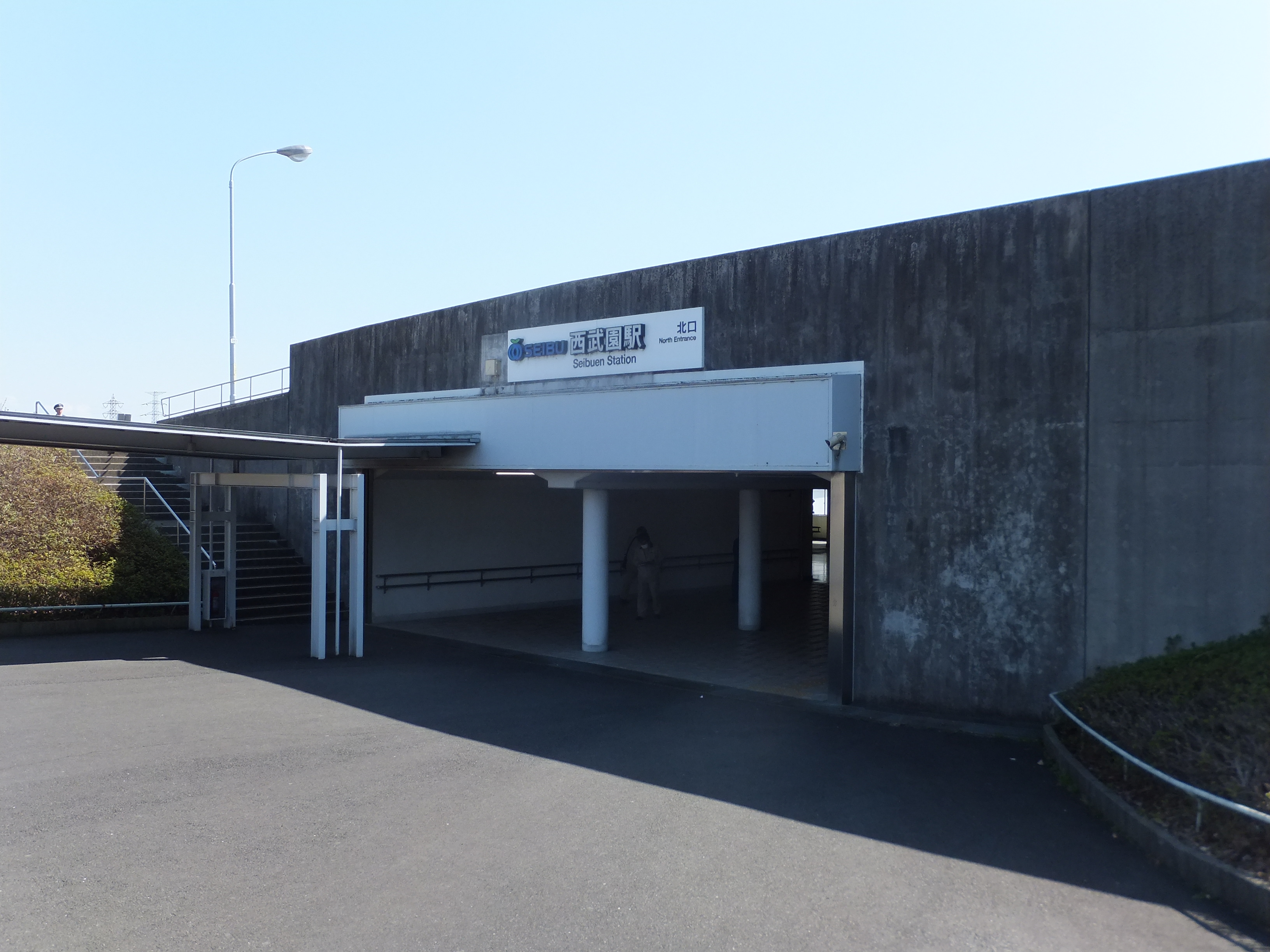 Seibuen Station operated by Seibu Railway, in Higashimurayama, Tokyo, Japan